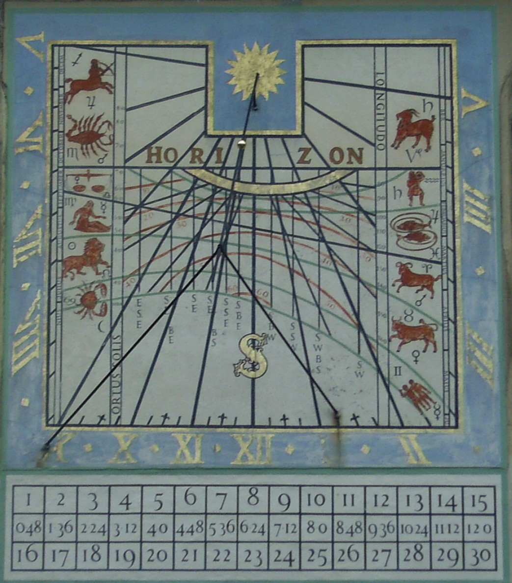 Moondial at Queen's College, Cambridge, England